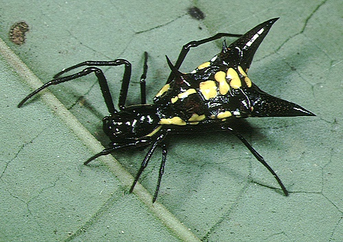 Micrathena pichincha from Ecuador.